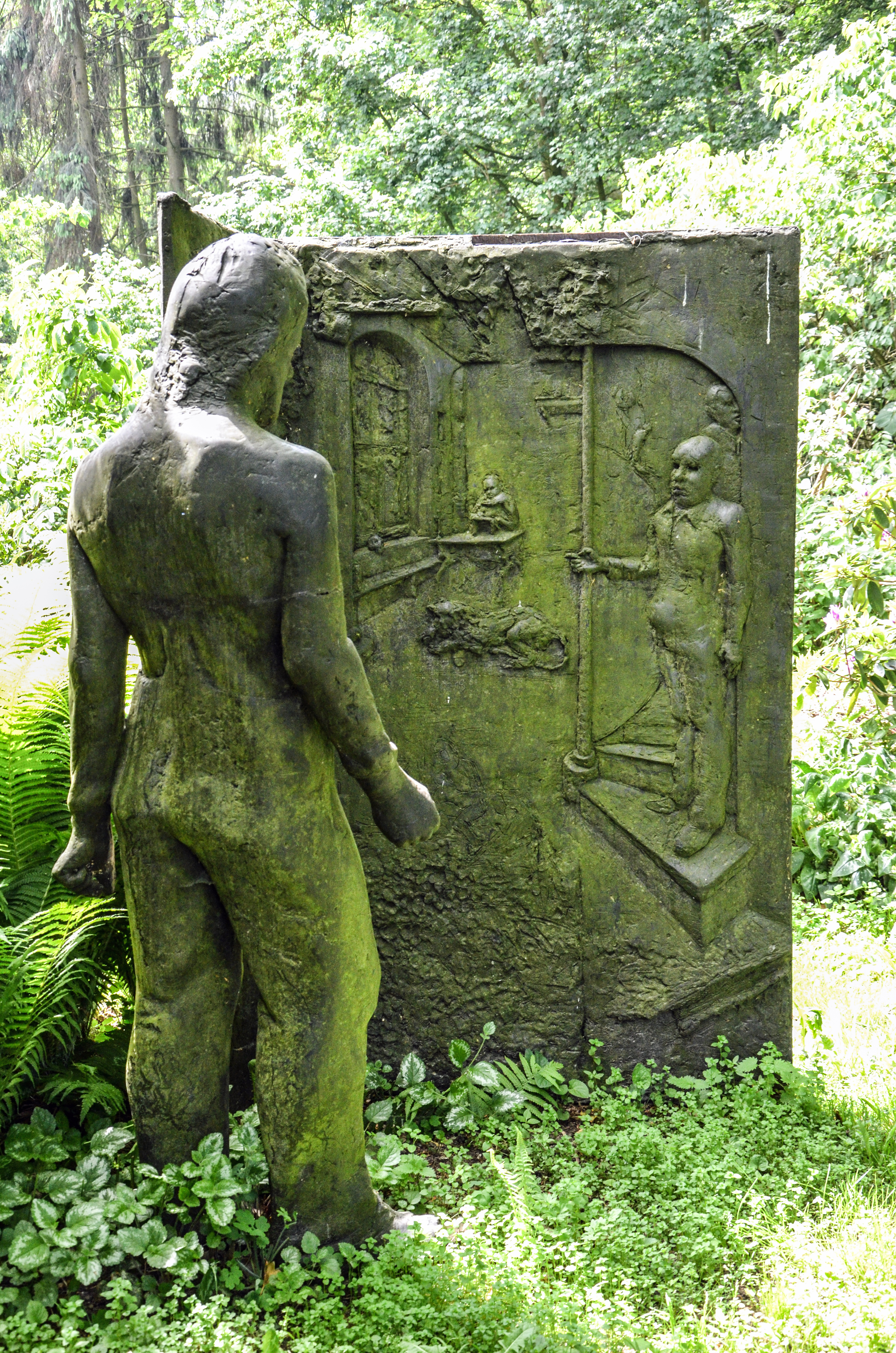 Andreas Frömberg, Syke Schnepke